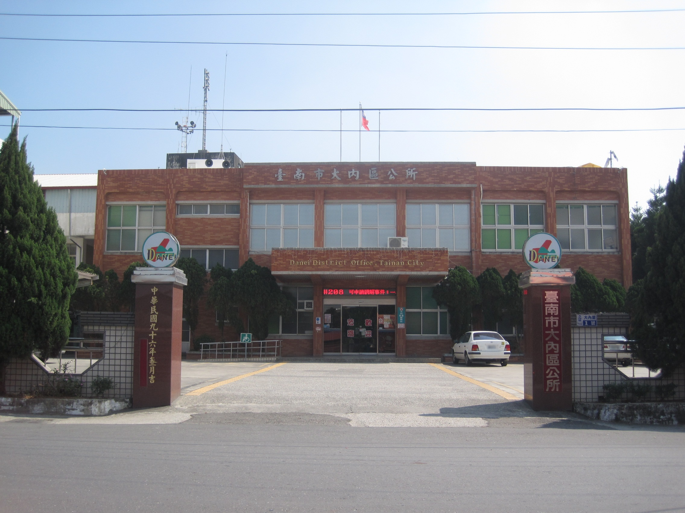 Danei District Office, Danei District, Tainan City, Taiwan